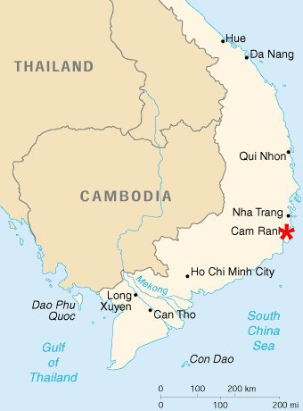 Location of Camh Ran Bay Air Base. Created from map of southern (south) vietnam generated from wikipedia commons map of southeast asia